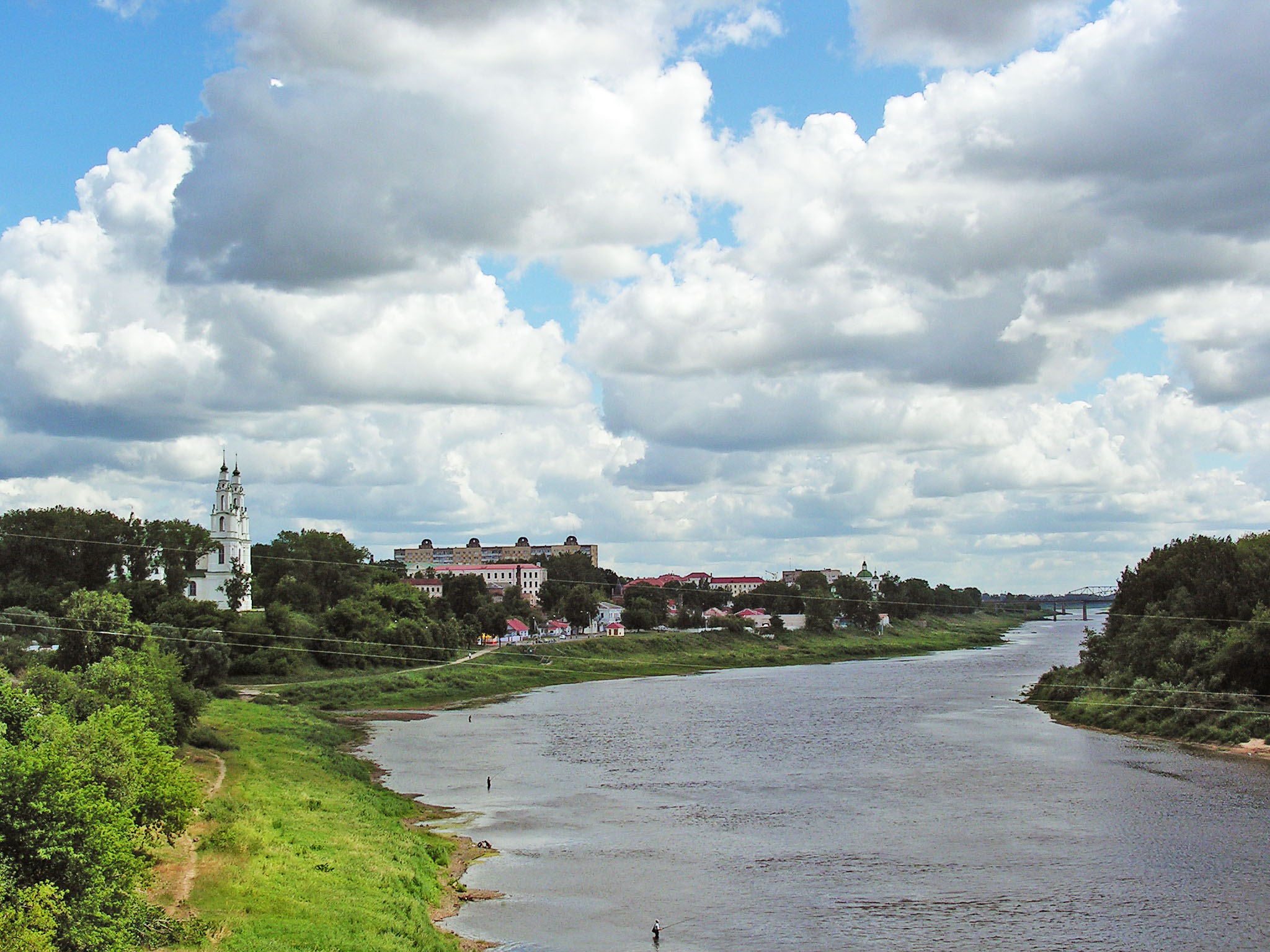 Western Dvina River in Polotsk